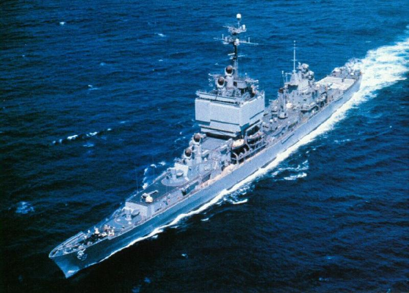 The U.S. Navy guided missile cruiser USS Long Beach (CGN-9) underway.